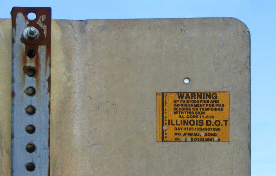 I took this photograph by myself. It is on the back of a street sign on U.S. Route 30 in Illinois in Frankfort, IL.